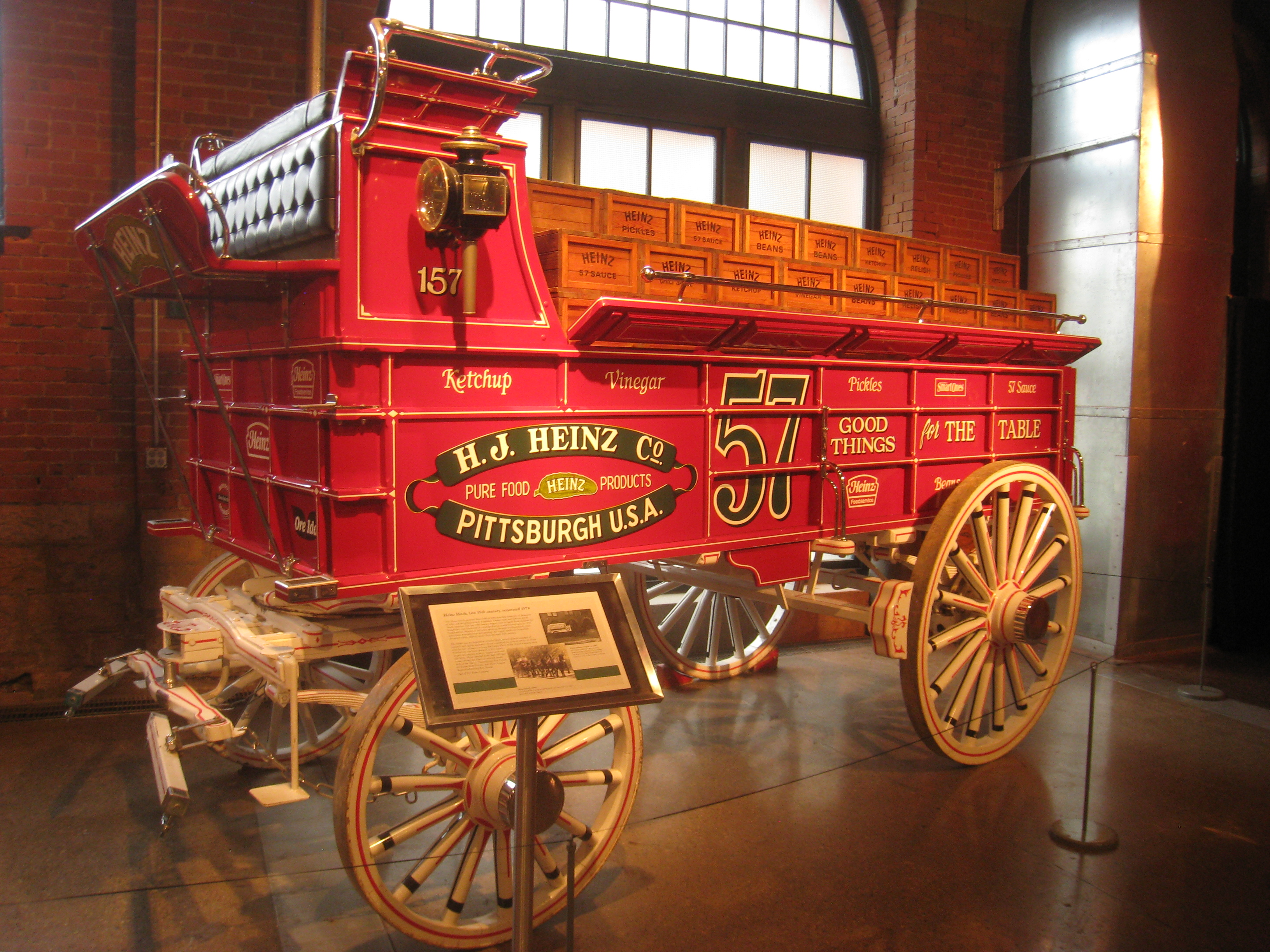 Exhibit in the Senator John Heinz History Center, 1212 Smallman Street, Pittsburgh, Pennsylvania, USA. There were no restrictions on photography in the museum collections.